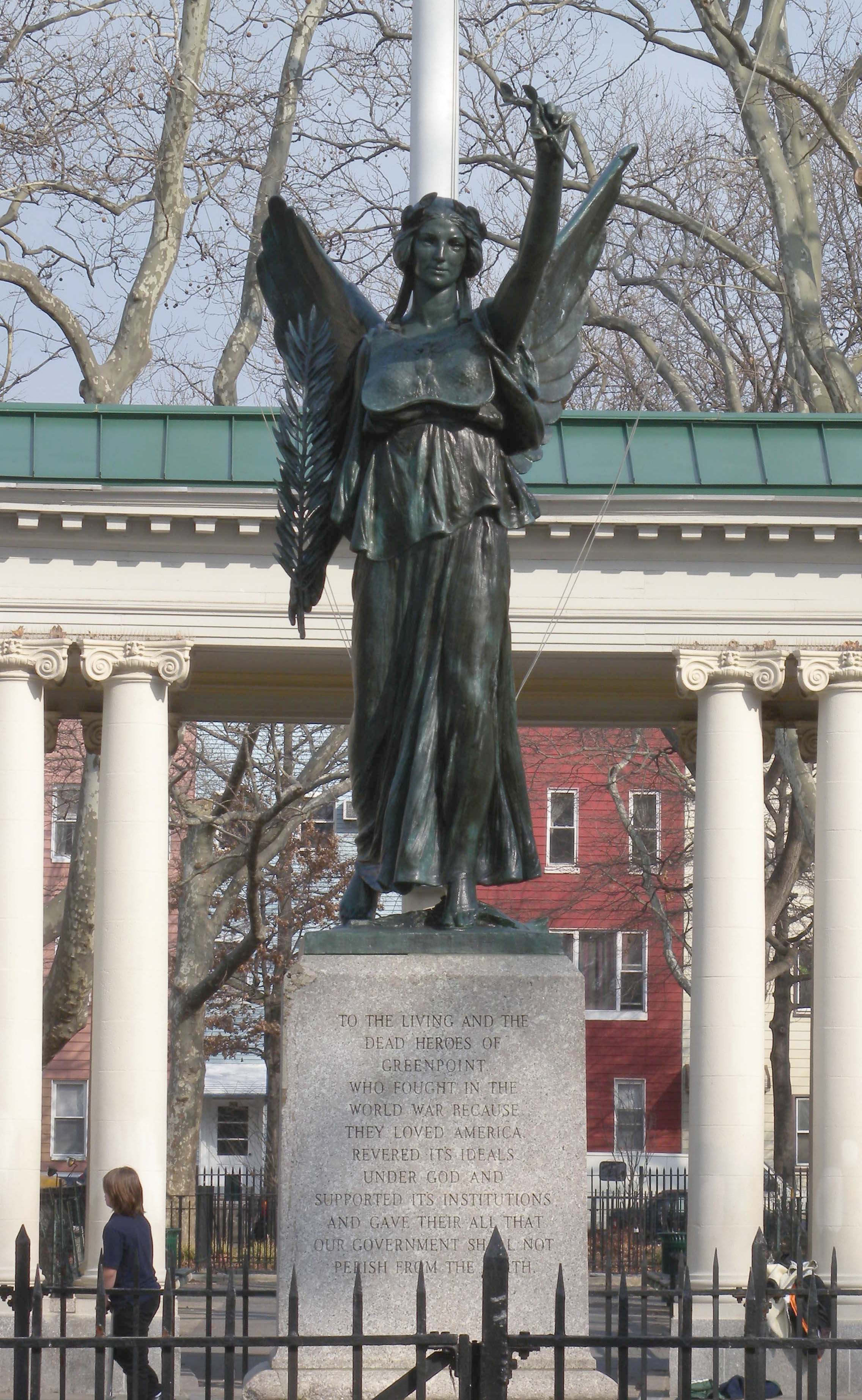 Looking east at the War Memorial angel with File:Winthrop Shelter Pavilion jeh.JPG behind, on a sunny early afternoon.